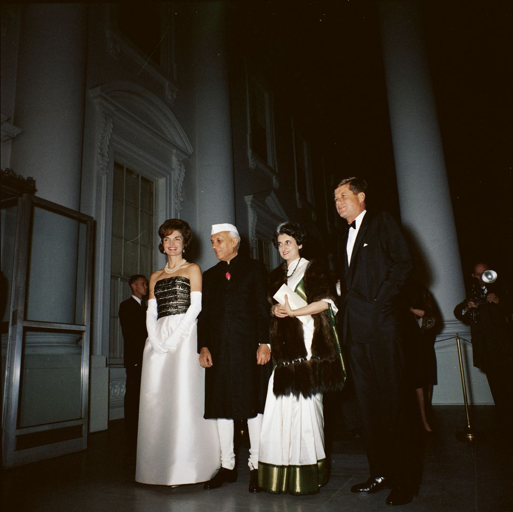 At a dinner in honor of Prime Minister Jawaharlal Nehru of India, President John F. Kennedy and guests pose in the North Portico, White House, Washington, D.C. (L-R) First Lady Jacqueline Kennedy; Prime Minister Nehru; the Prime Minister’s daughter Indira Ghandi; President Kennedy.